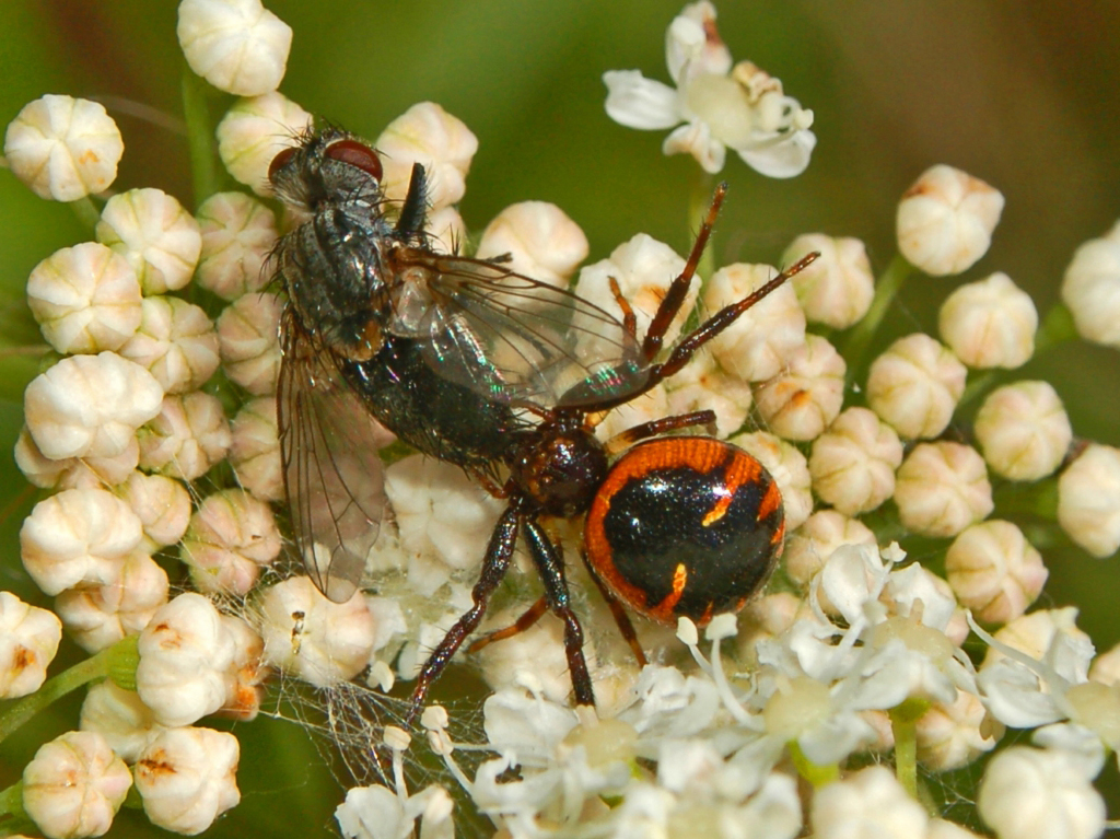 Synema globosum hunting a fly in Parco dell'Antola, Genova, Italy